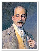 Henry Petty-Fitzmaurice, 6th Marquess of Lansdowne (1872-1936). Bowood — is a stately Georgian country house and landscape gardens of the Marquis and Marchioness of Lansdowne.